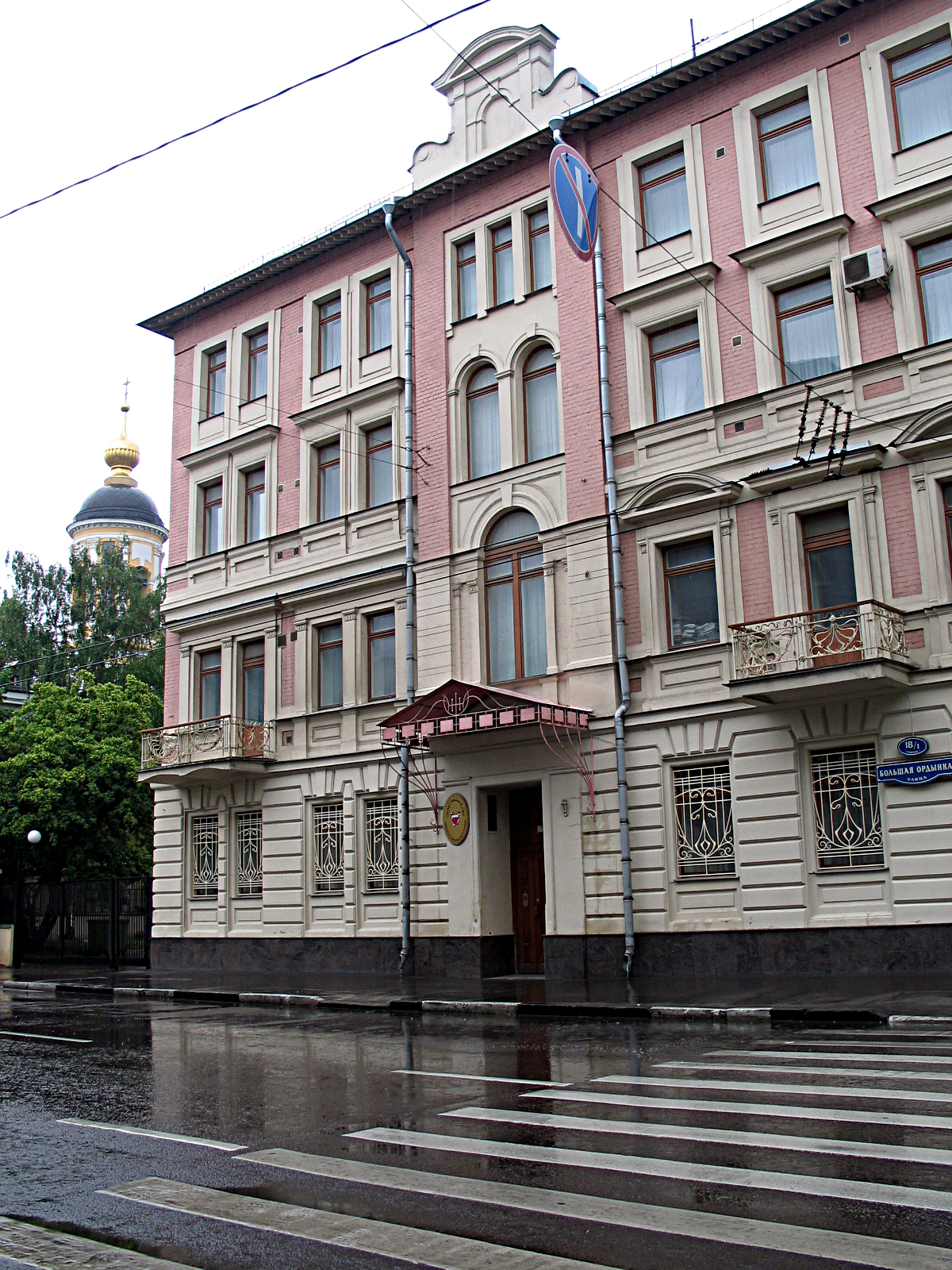 Embassy of Bahrain in Moscow (Bolshaya Ordynka Street, 18/1)